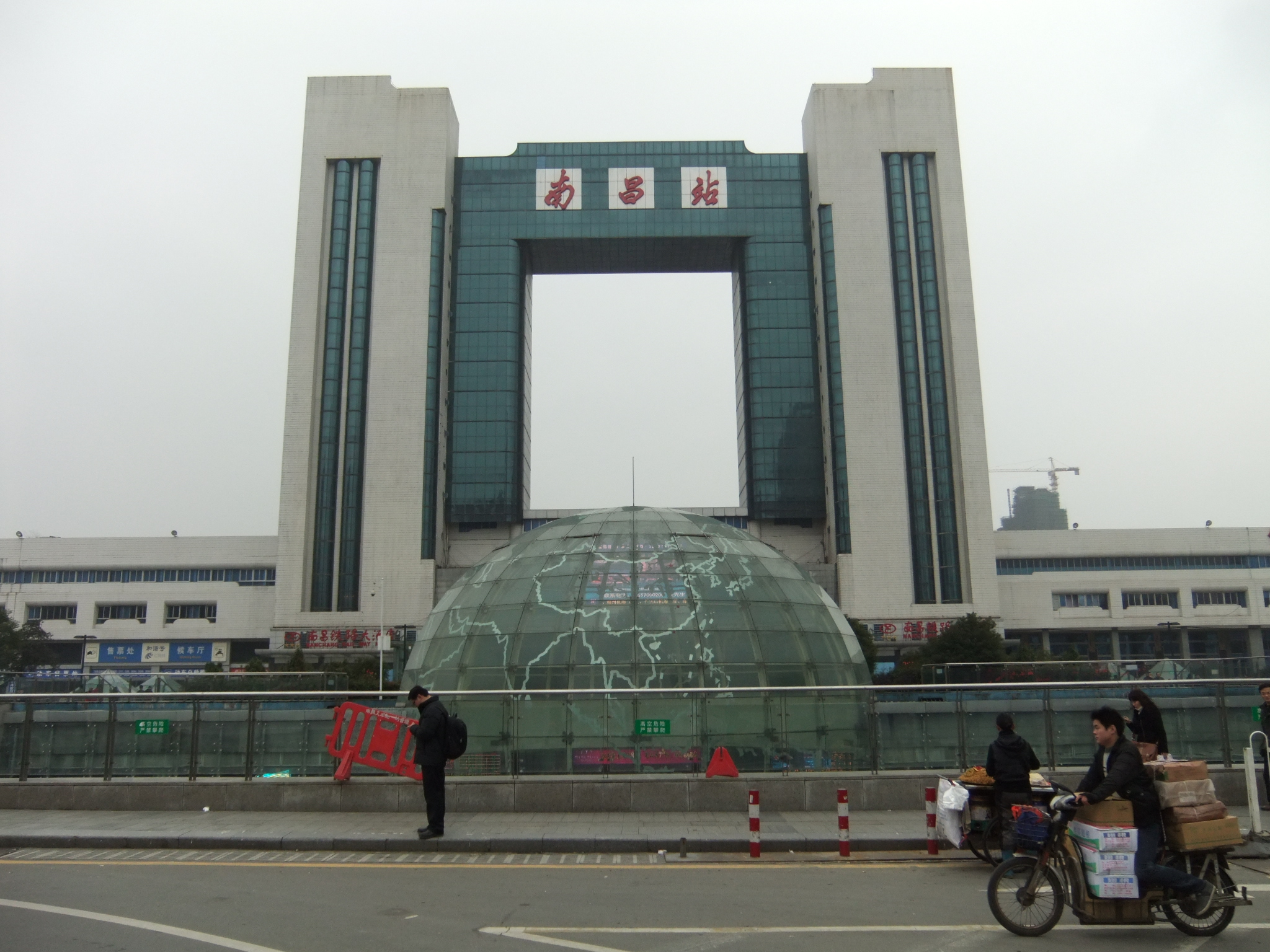 Nanchang Railway Station.